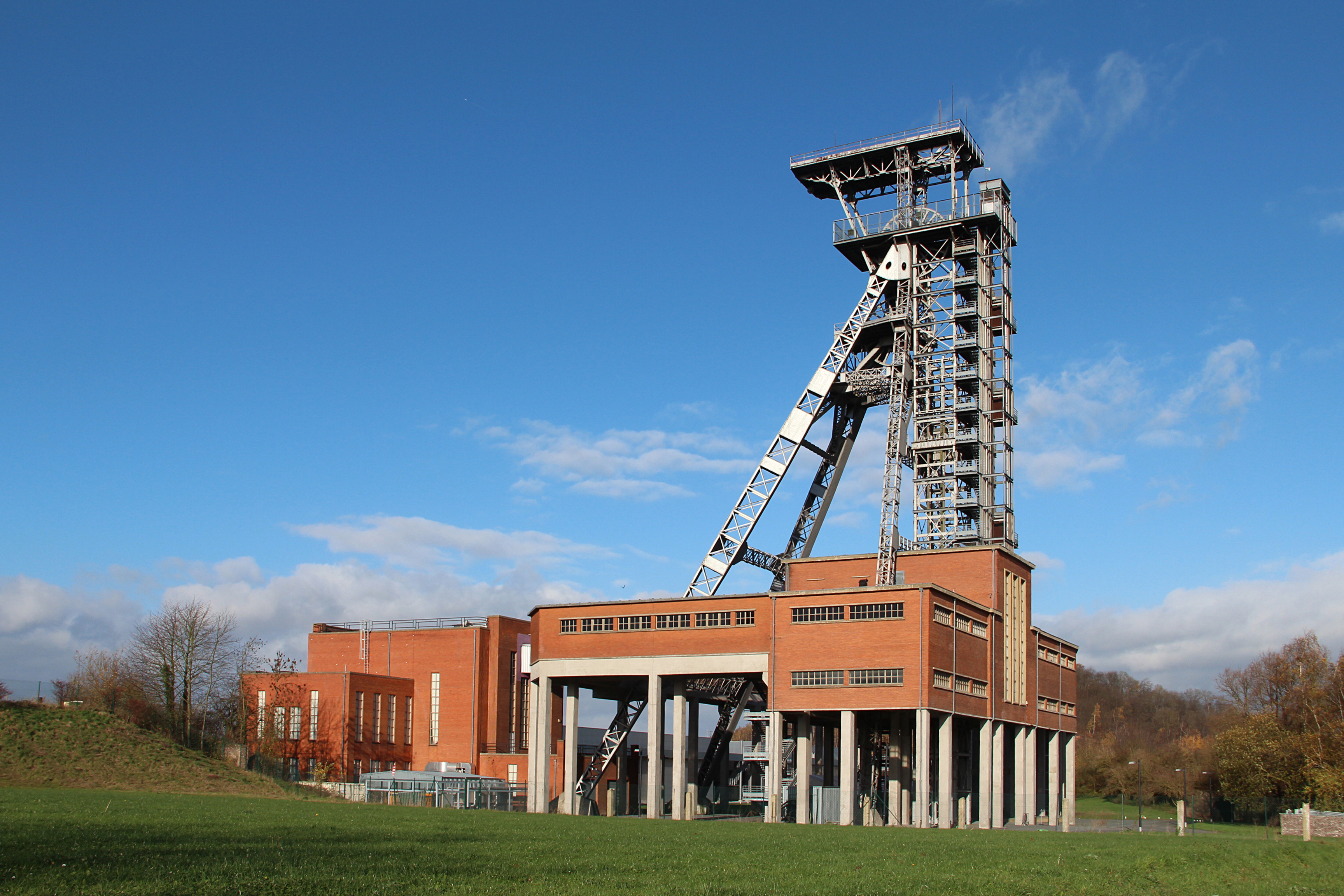 Frameries (Belgium), rue de Mons – The former coal mine of the Crachet Picquery after renovation.